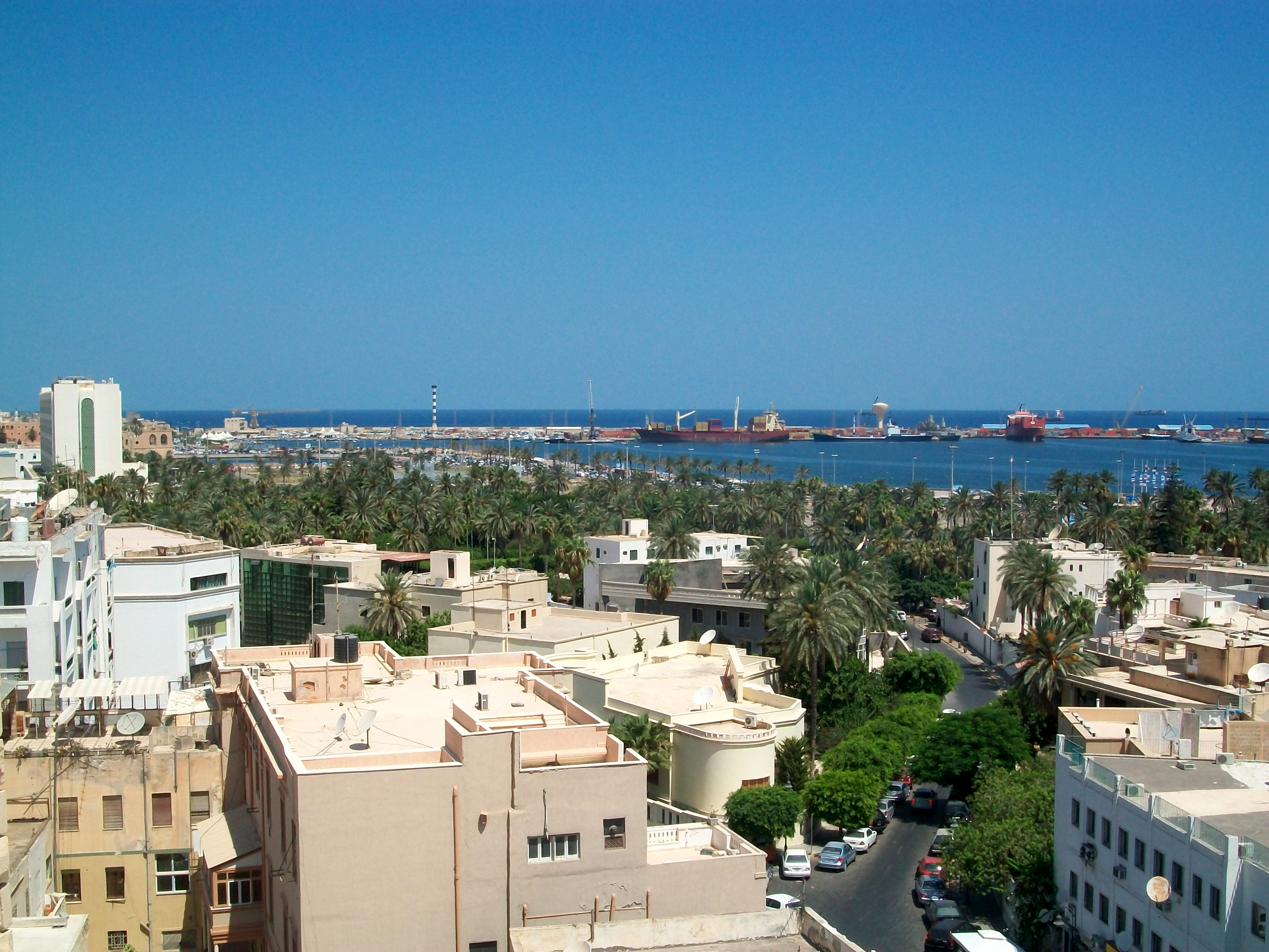 View of the Maydan Jazair Park from the Safwa Hotel on Baghdad Street in the Italian quarter of Libya's capital Tripoli. To the left of the park is the Grand Hotel and in the background is the port of Tripoli. On the right sight of the foreground is the Algerian embassy in an area where most of Tripoli's foreign embassies are to be found.